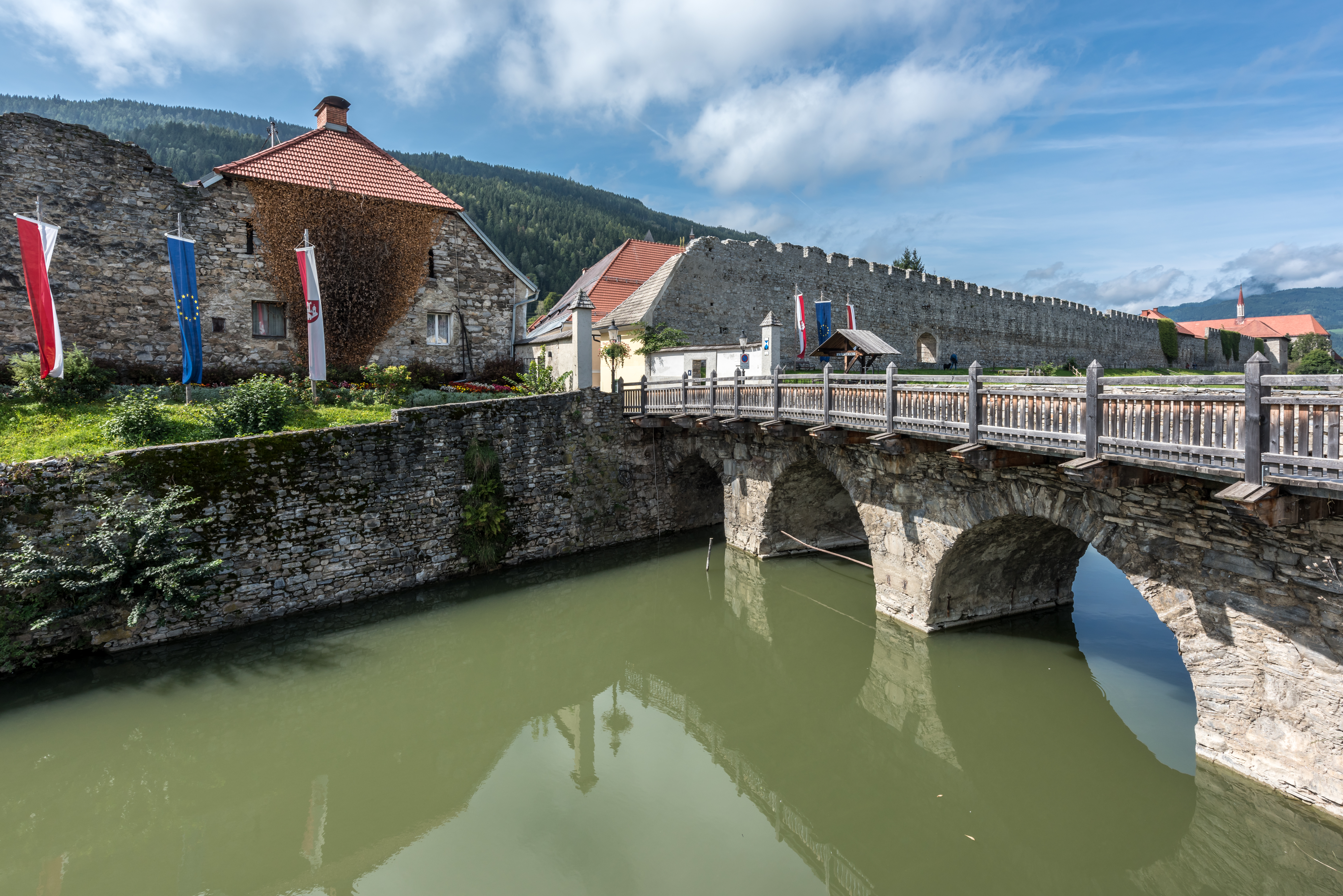 Olsa gate bridge across the Grabenring at the eastern part of the town fortification, municipality Friesach, district Sankt Veit, Carinthia, Austria, EU